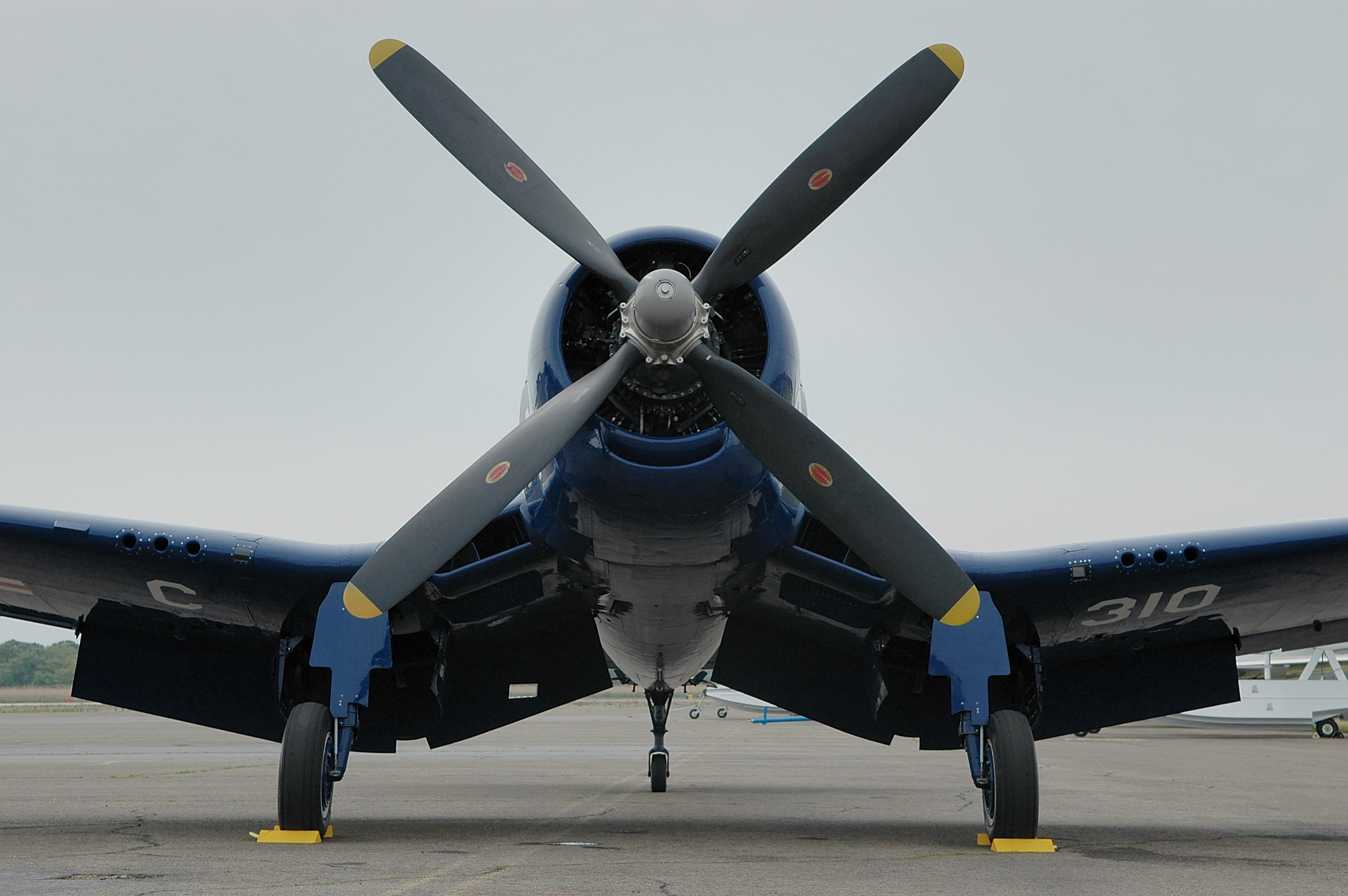 Corsair F4U-4 folding its wingsThis was the second to last built at the Stratford, CT plant (prior to Vought-Sikorsky moving to Dallas, TX). It was flown frequently by the late Gerald Beck of Wahpeton, North Dakota (Mr. Beck died in summer 2007, current ownership is not known). The plane, formerly a Honduran fighter (FAH 610), was salvaged from the country by Earl Ware in 1981 and later sold to Mr. Beck who restored if over approximately a decade's time. Bureau number : 97388 ; Wartime registration : FAH 610 (Honduran Air Force) ; Current civil registration : NX72378 ; Owner : Assumed to be the estate of Gerald Beck of Wahpeton, North Dakota ; Place : "Corsairs Over Connecticut" airshow in Bridgeport, CT